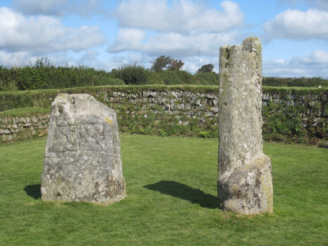 King Doniert's Stone Two ancient cross bases decorated in late 9th Century style. The shorter cross bears a latin inscription referring to Doniert,probably Durngarth, King of Cornwall, who was drowned in AD 875.